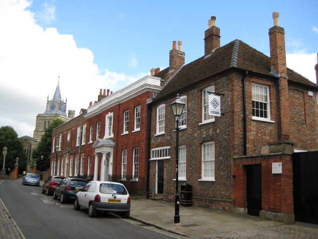 Aylesbury: Buckinghamshire County Museum The Museum is in Church Street and parts of the buildings date back to the 15th century. The site also contains the Roald Dahl Children's gallery. The Museum's website with opening times is here